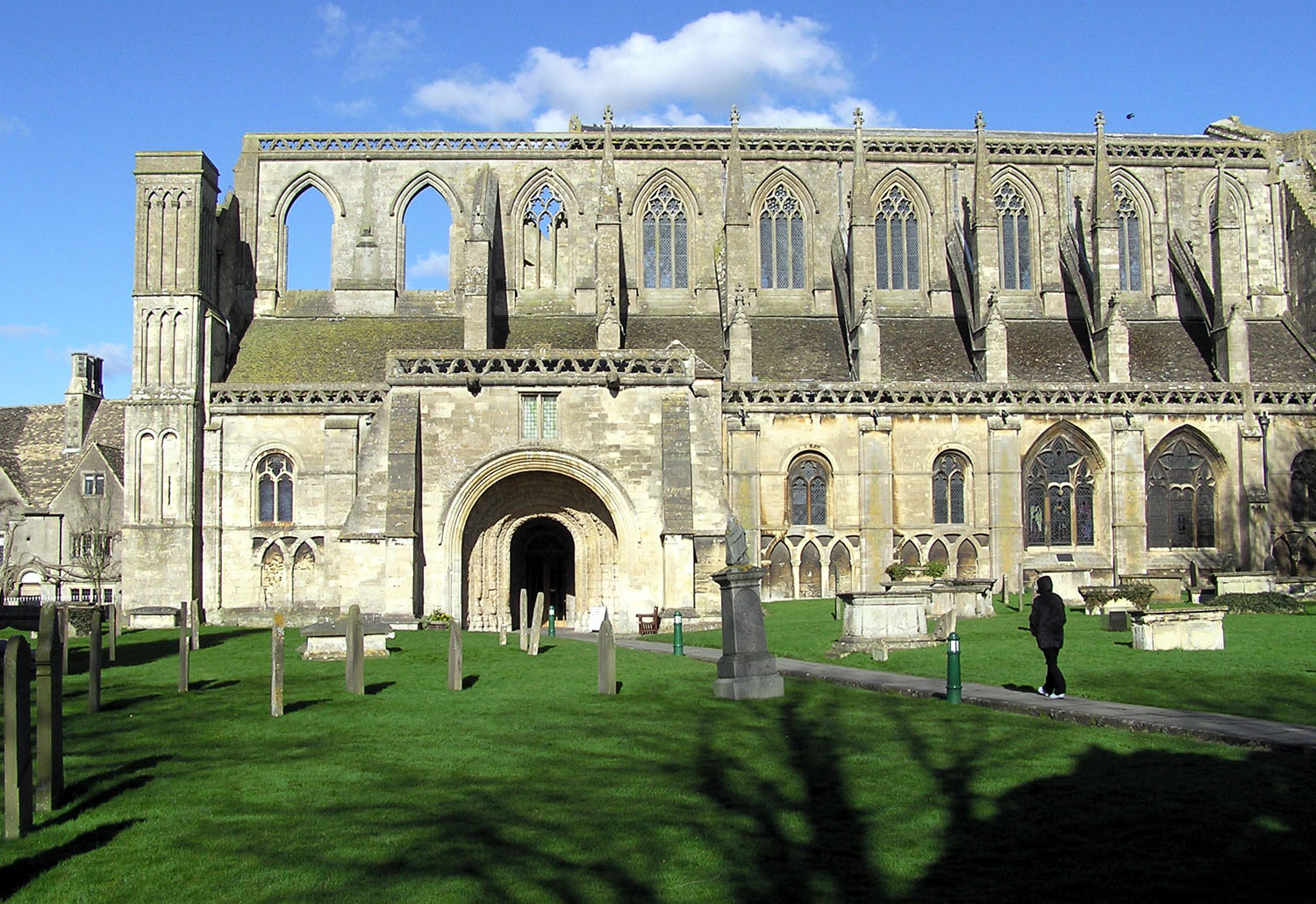 Malmesbury Abbey exterior, showing the South Porch and graveyard.